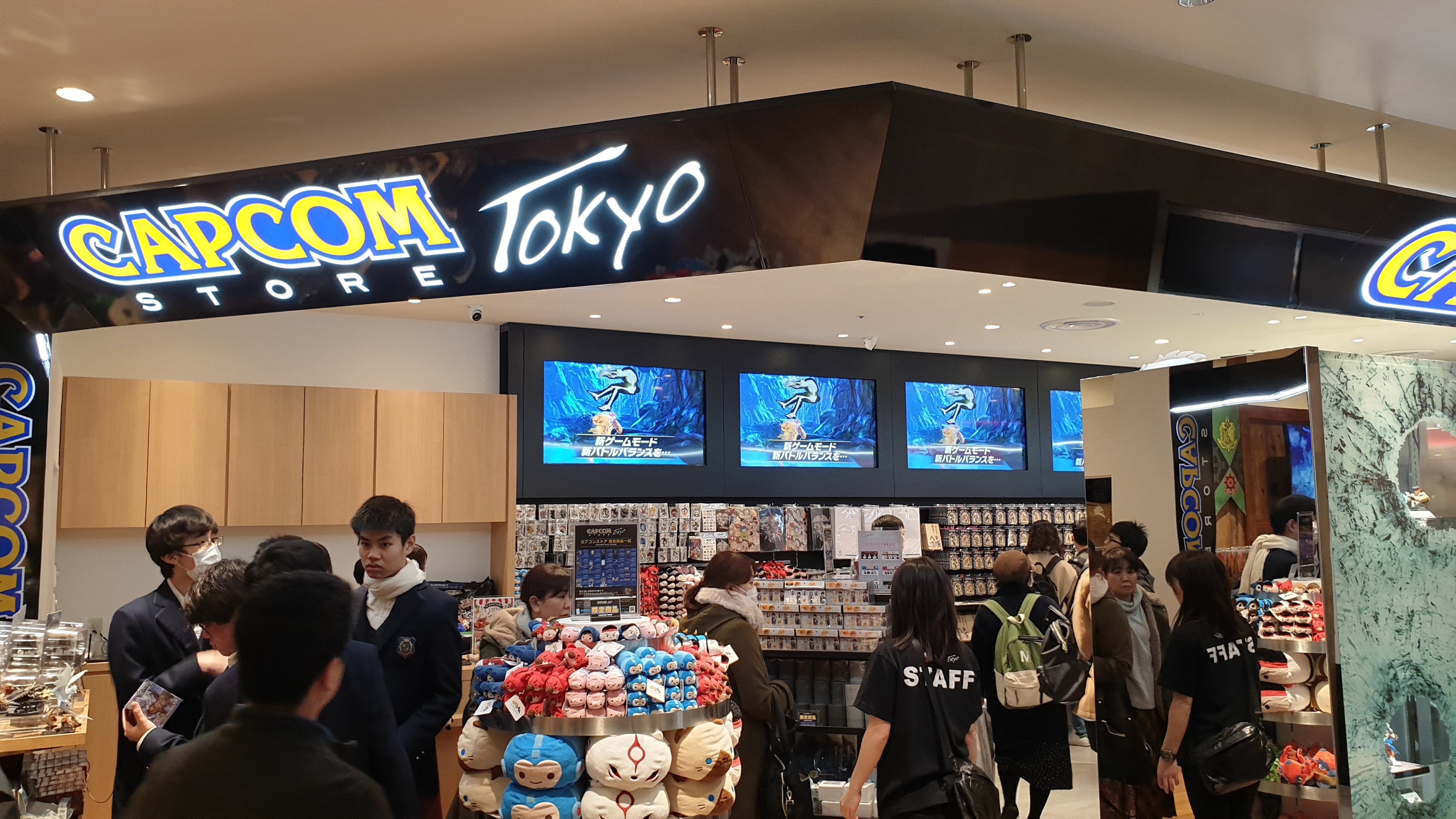 Capcom Store Tokyo at Shibuya PARCO - Dec 2019